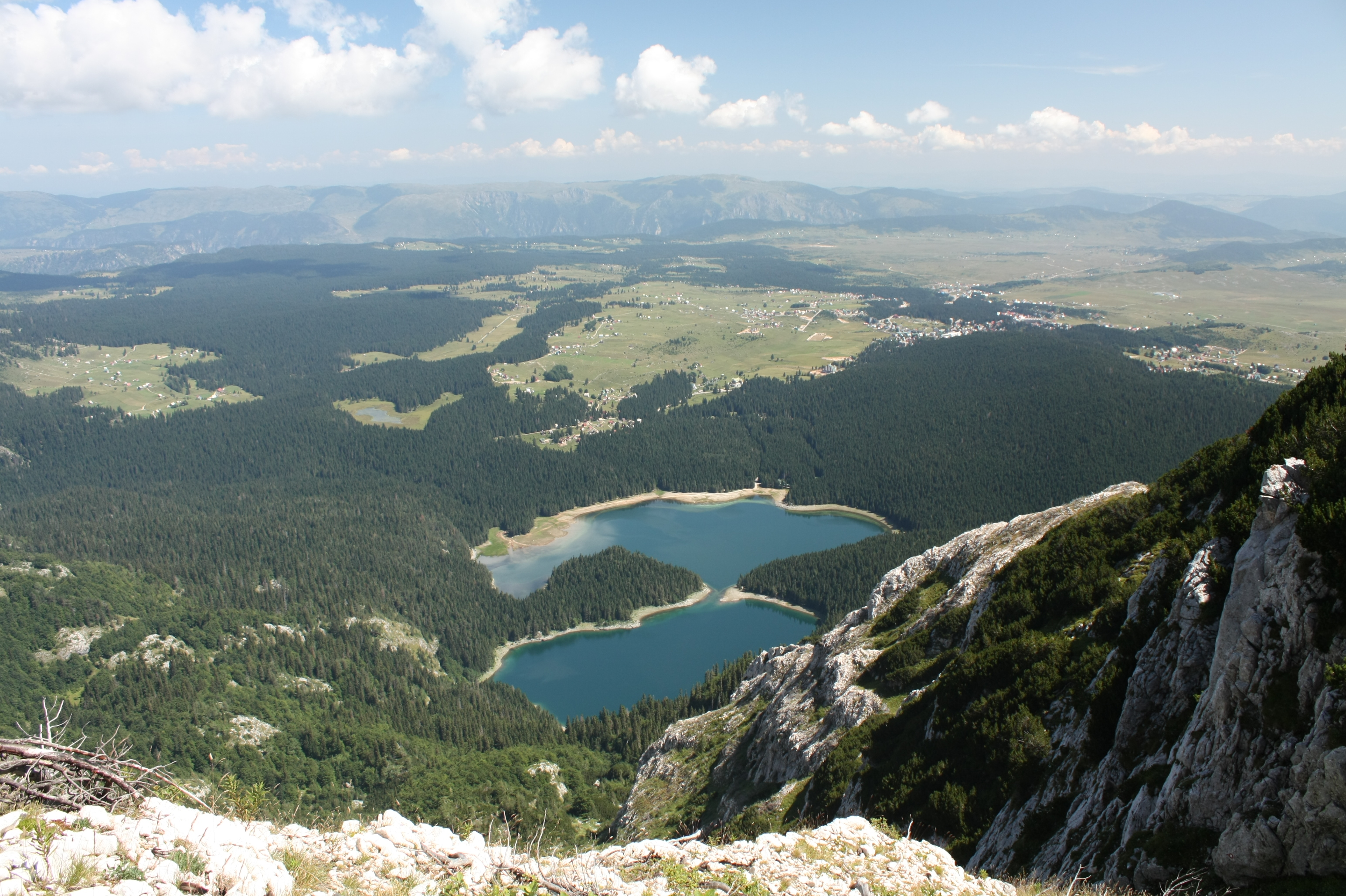 Durmitor National Park, Montenegro - view of Crno jezero (Black lake) from Mali meded